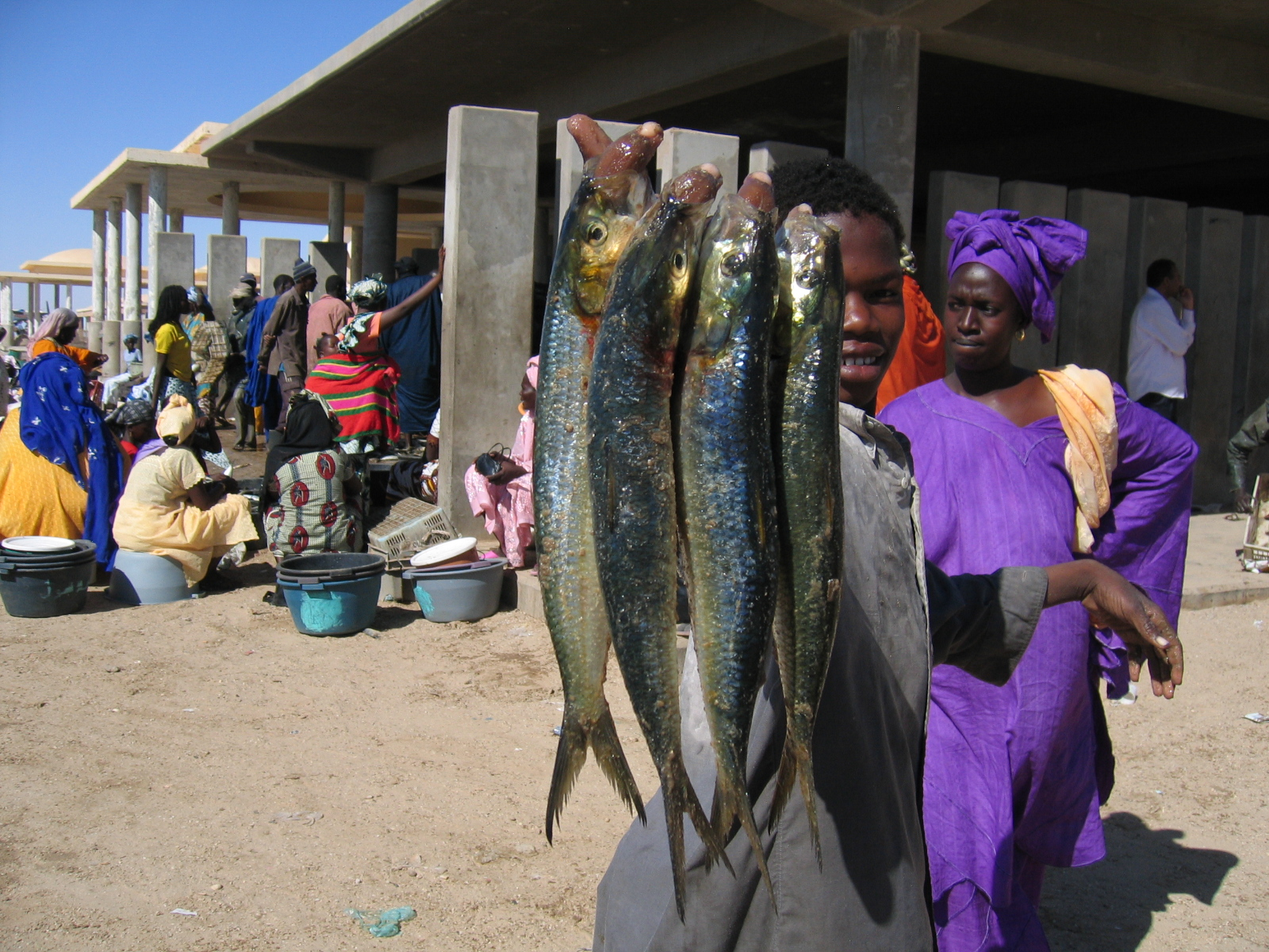 Photograph of fish market, Nouakchott, Mauritania